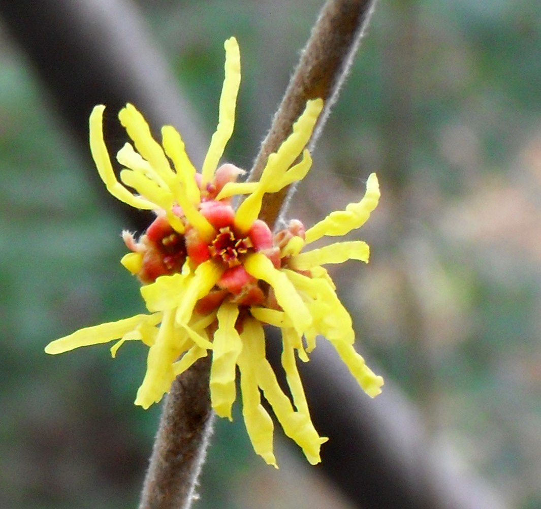 Hamamelis mollis - Botanical Garden Leipzig